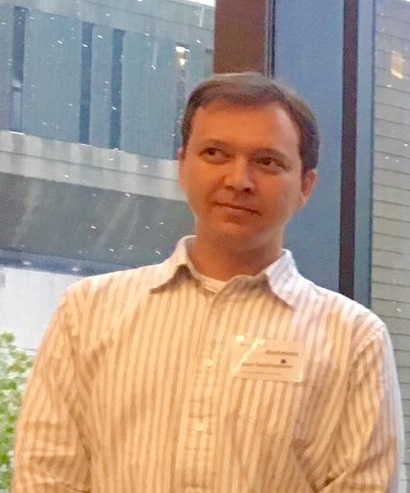 Russ Salakhutdinov, Rich Sutton, Geoff Hinton, and Yoshua Bengio, Steve Jurvetson